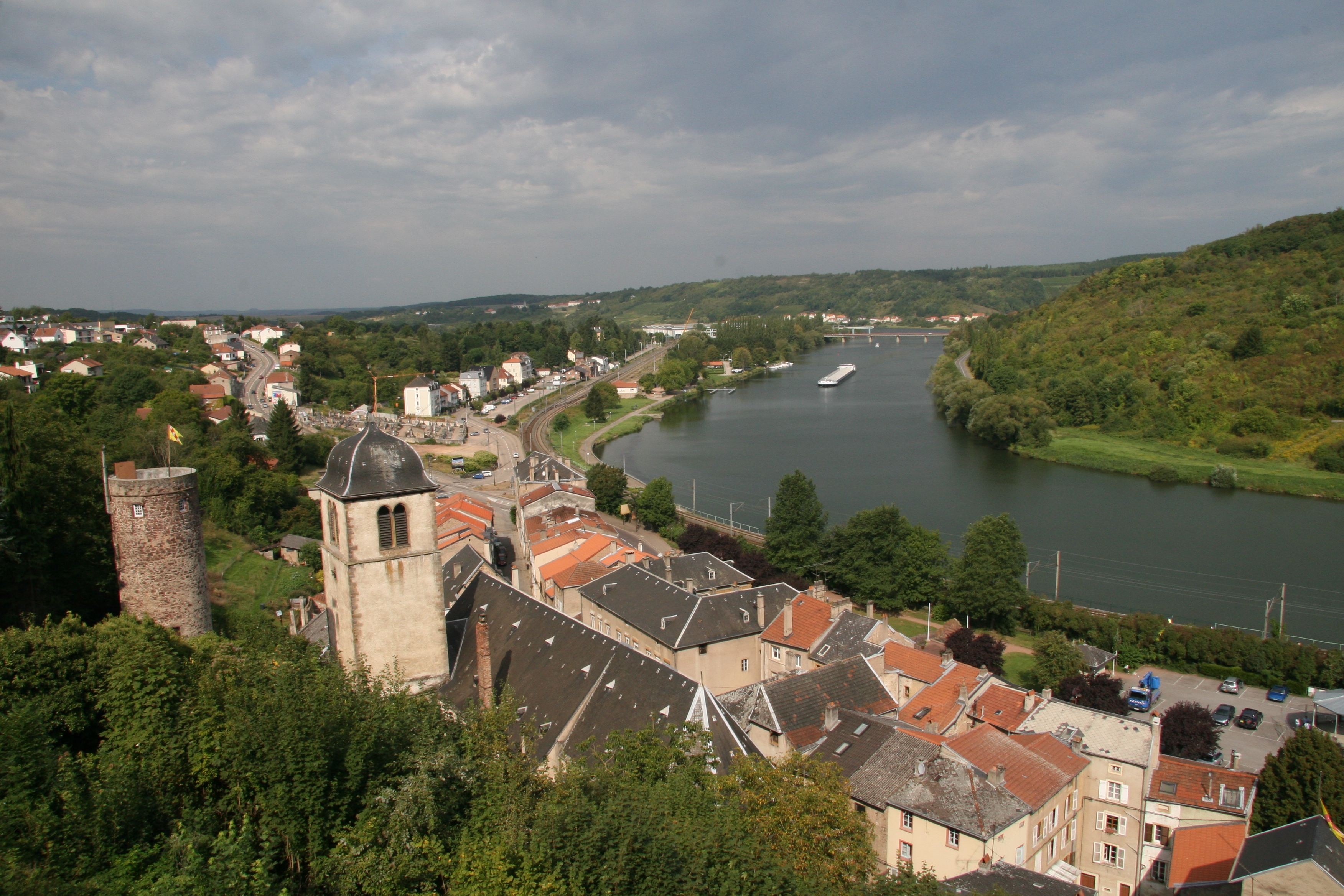 Western part of Sierck-les-Bains with church Notre-Dame, Lorraine, France.